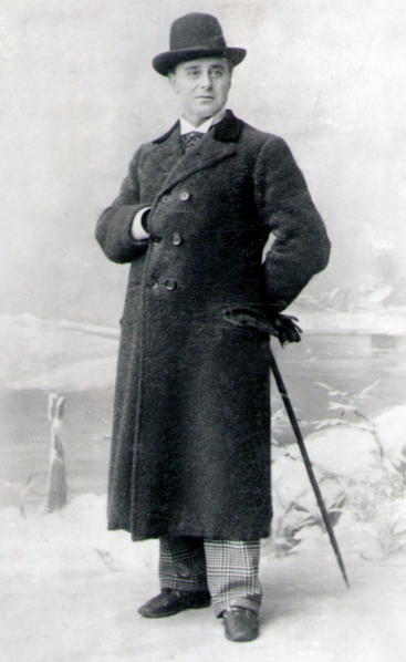 Dutch entertainer and comedian Abraham de Winter